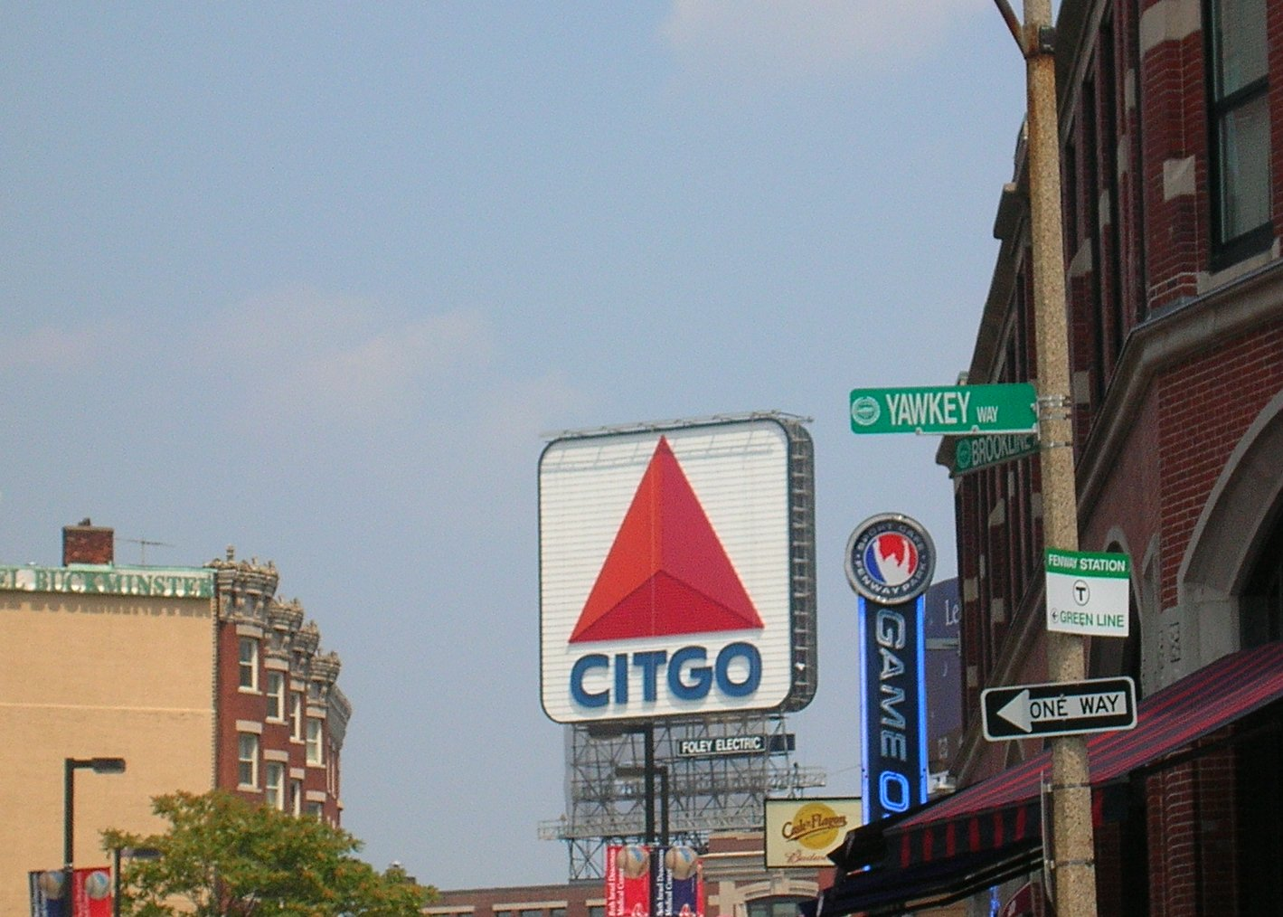 The Citgo sign and the sign for Yawkey Way. The side of Fenway Park is also seen on the right.